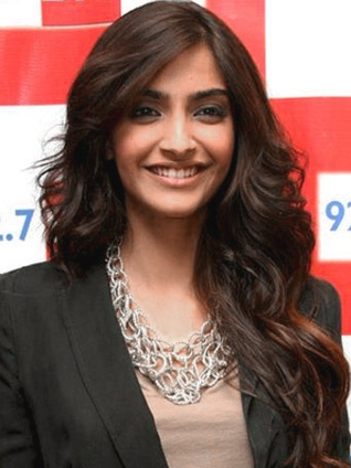 Sonam Kapoor promotes 'I Hate Luv Storys' on 92.7 BIG FM